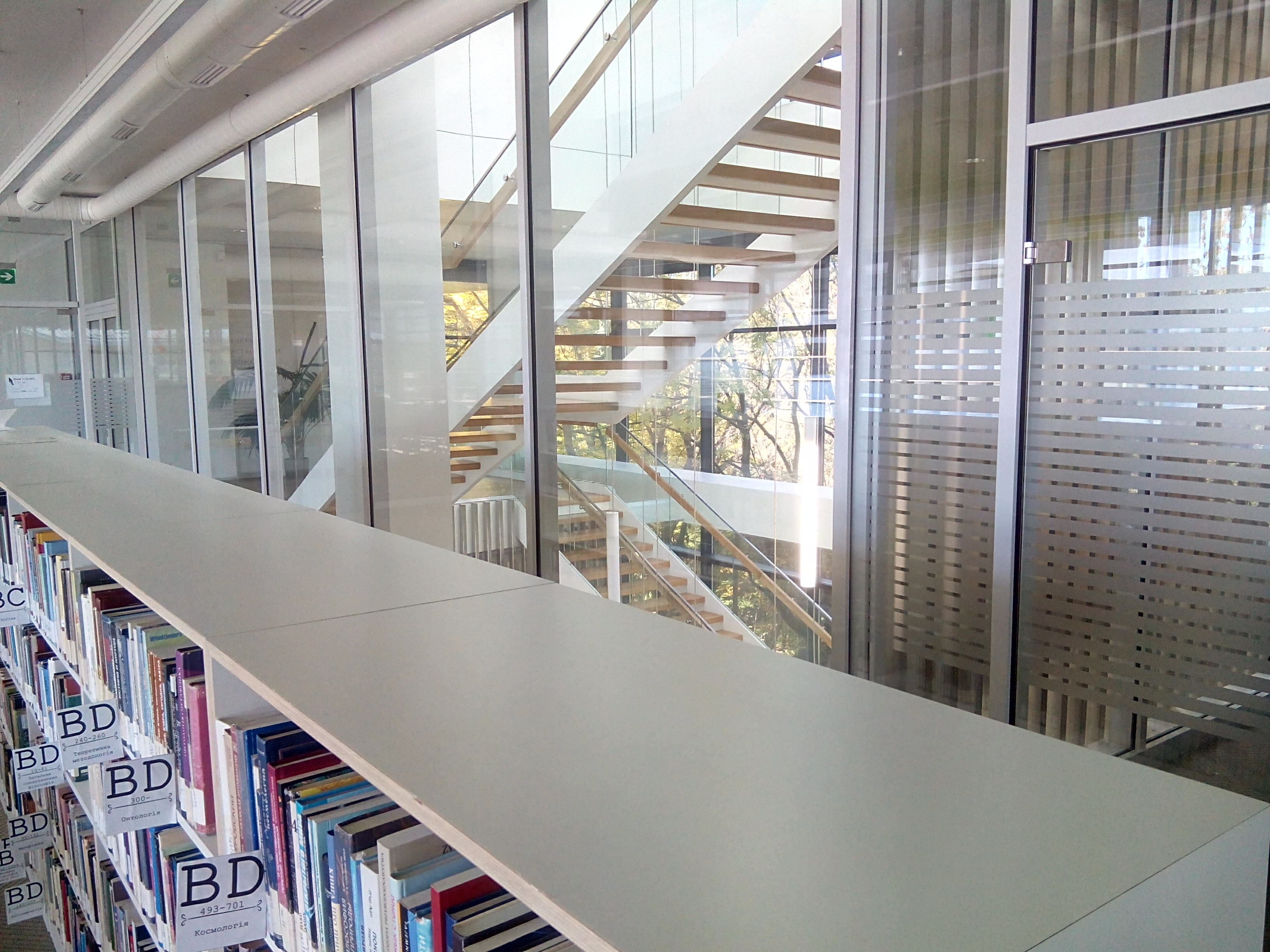 Interior of the Ukrainian Catholic University in Lviv, Ukraine